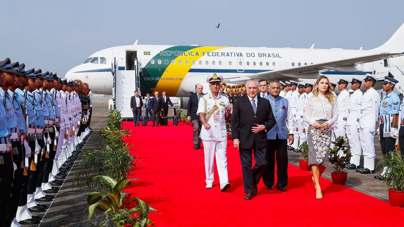 Michel Temer attends the 2016 BRICS summit in Goa, India.